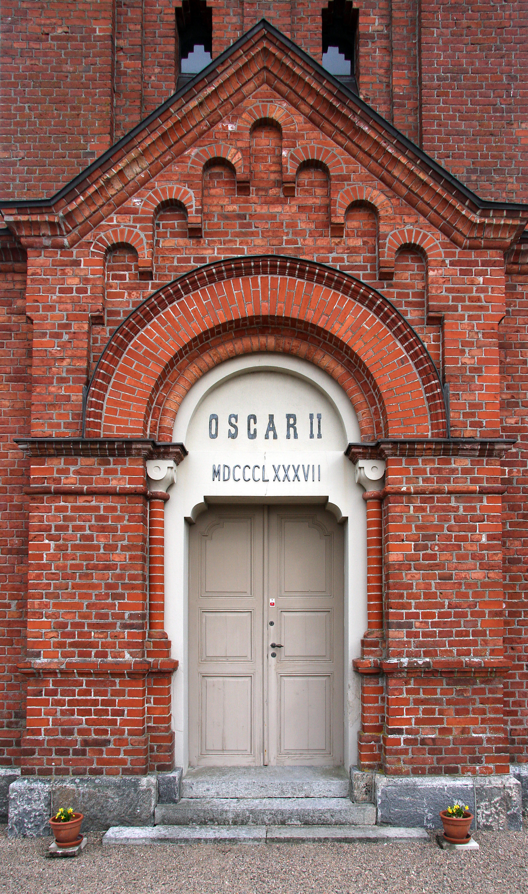 Ignaberga new church in Hässleholm municipality, Sweden